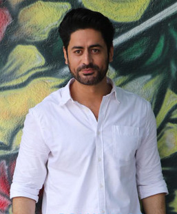 Mohit Raina snapped promoting his web series Kaafir